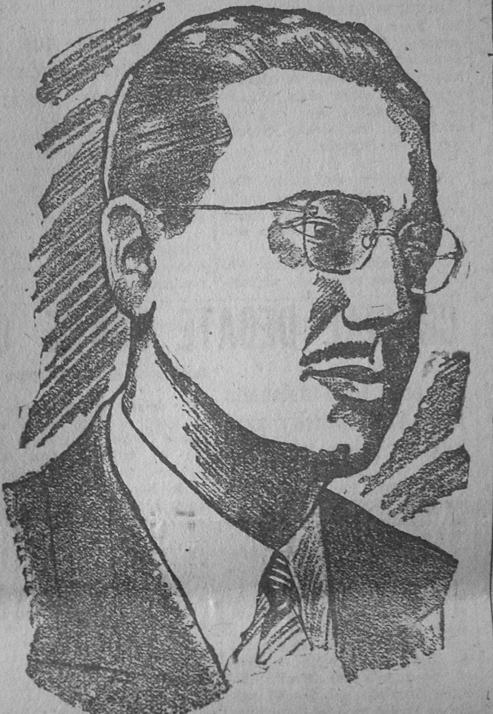 Gonzalez Maertens